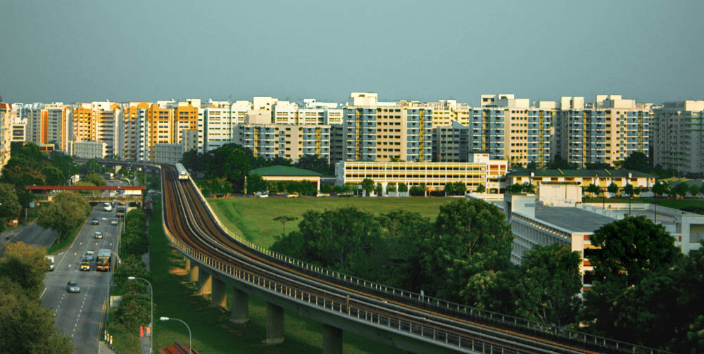 Housing and Development Board flats near Woodlands Avenue 7, Woodlands, Singapore.